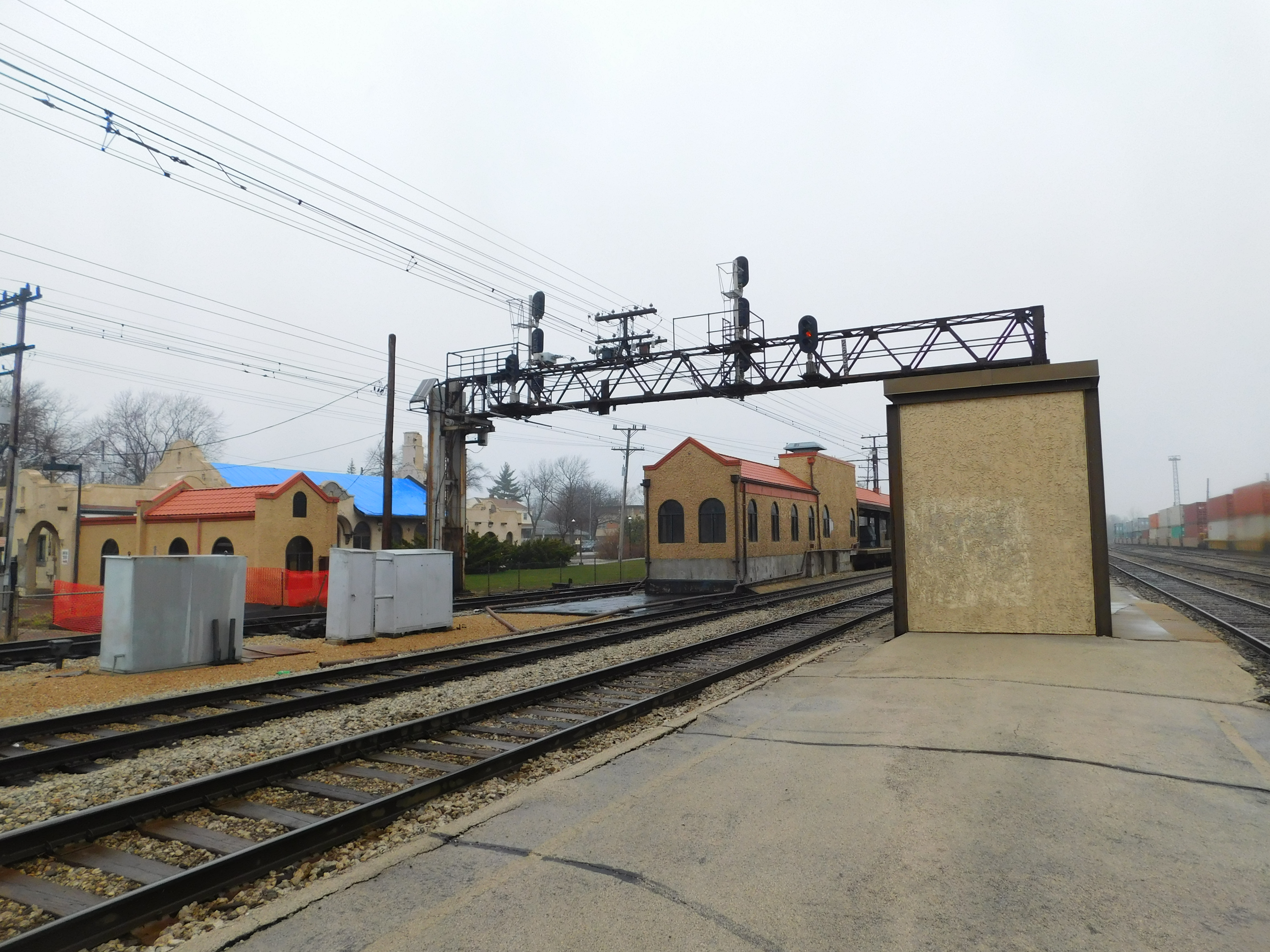 The Homewood station for Metra and Amtrak in March 2017.